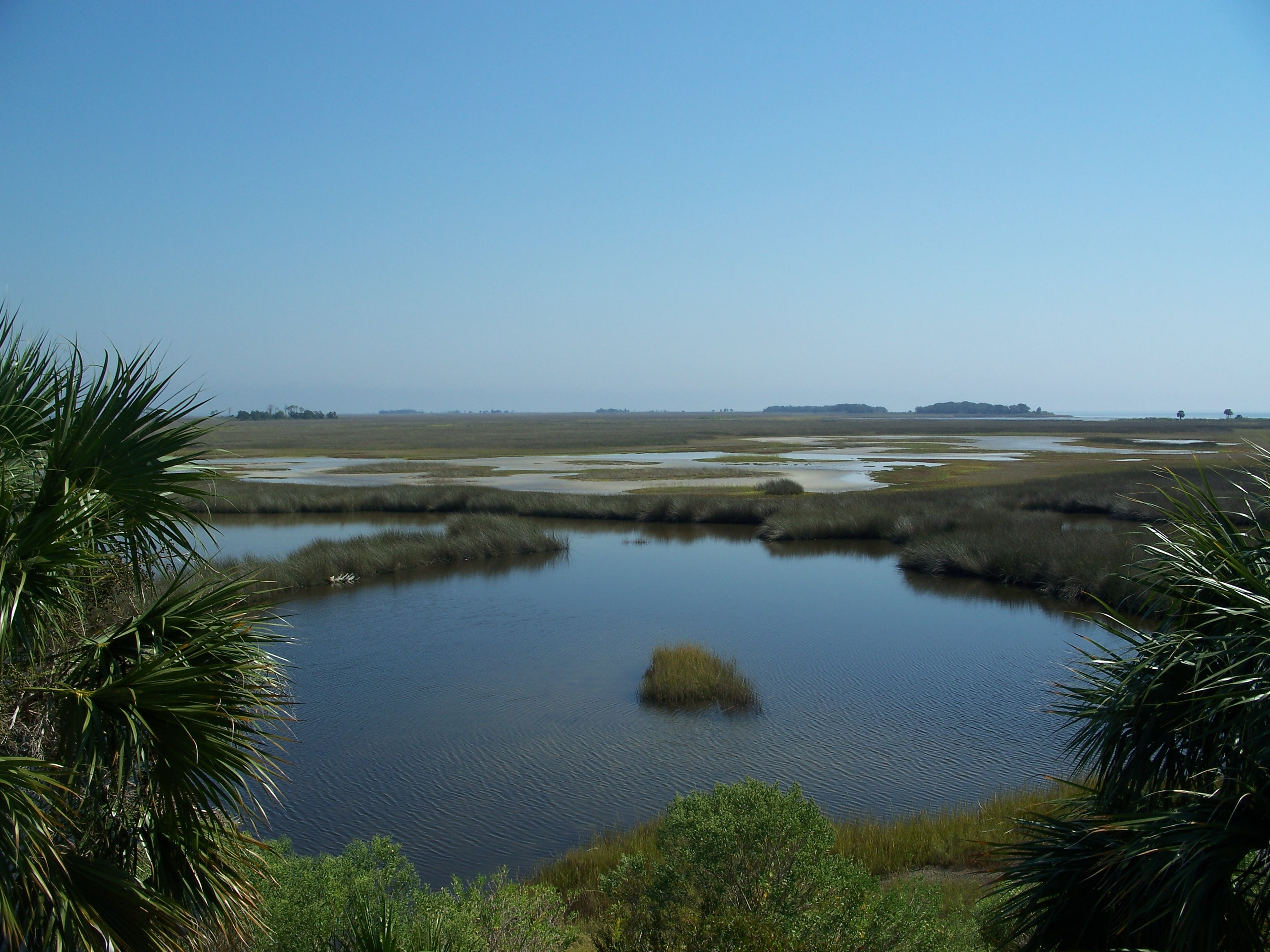 St. Marks National Wildlife Refuge